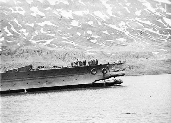 Reproduction ID: AD09947 Maker: Unknown Date: 1942 This photograph is featured in Arctic Convoys, a new photographic exhibition looking at the experiences of those who served on the Arctic Convoys. It's on at the National Maritime Museum until 4 November 2012